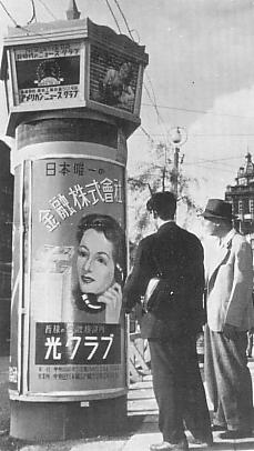 Advertisement for Hikari Club